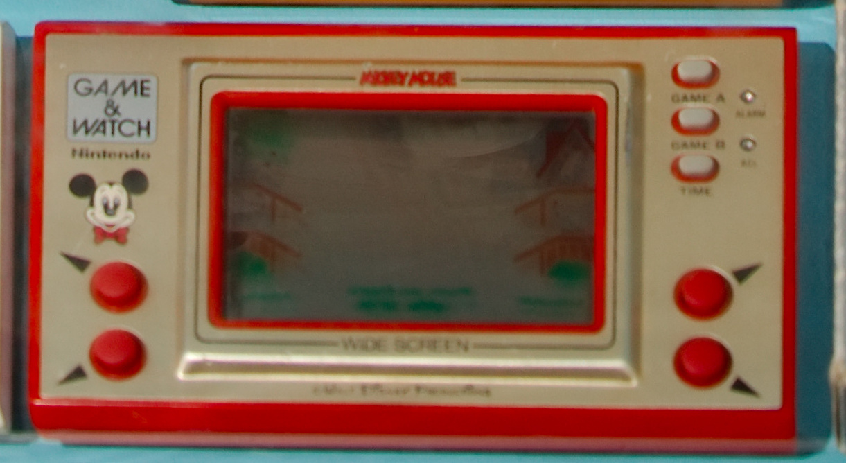 Mikey Mouse - Game & Watch - Nintendo